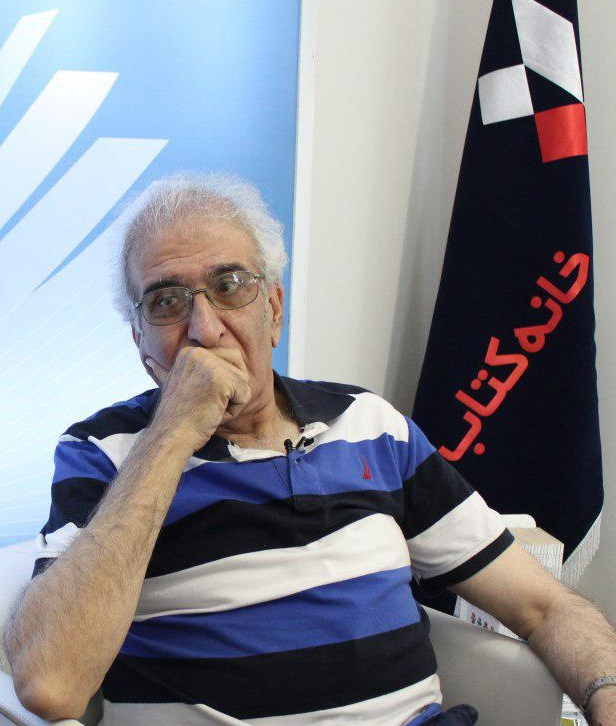 Ahmad Poori-Tehran International Book Fair - May 8, 2017